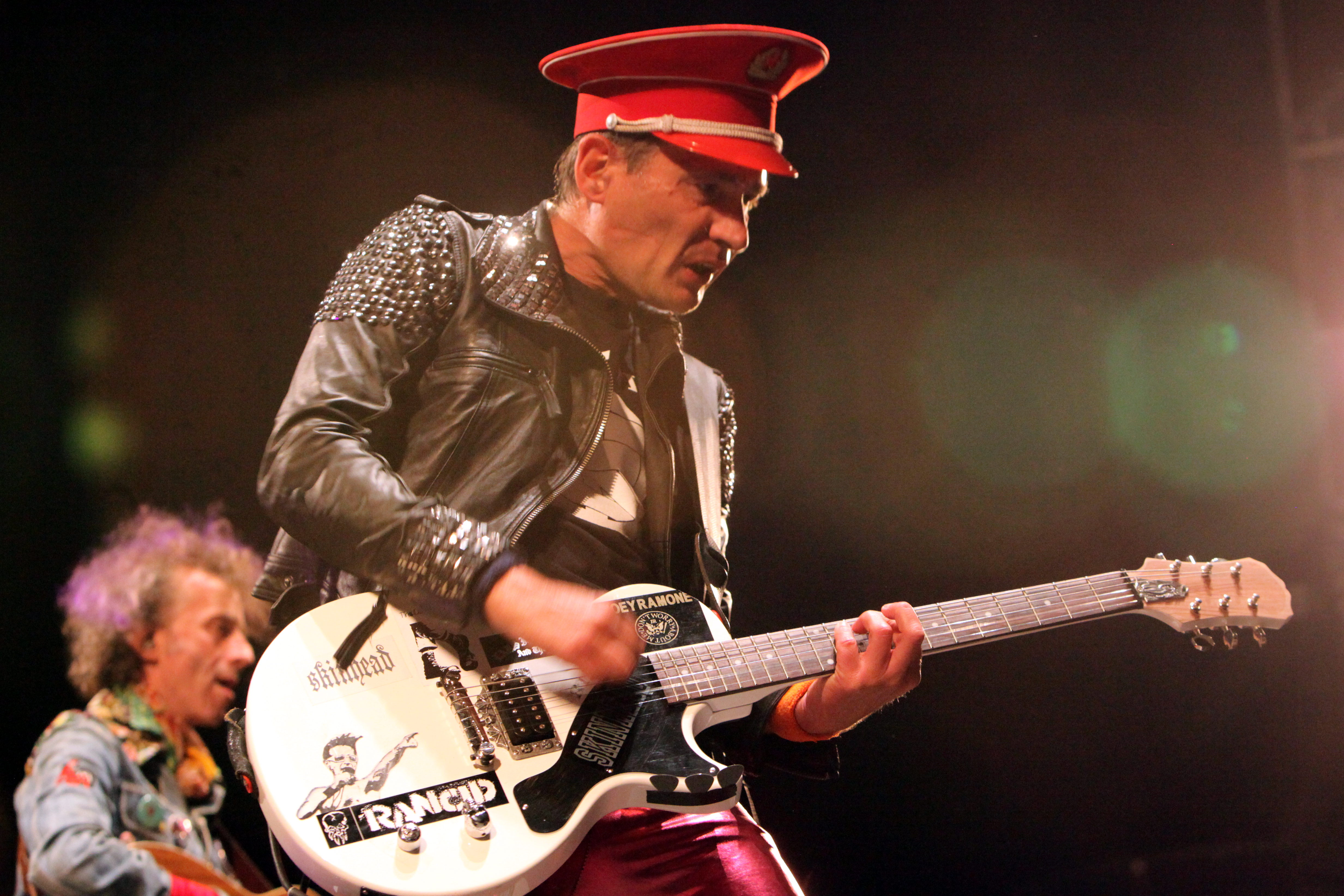 Didier Wampas (Les Wampas) at Balelec 2011